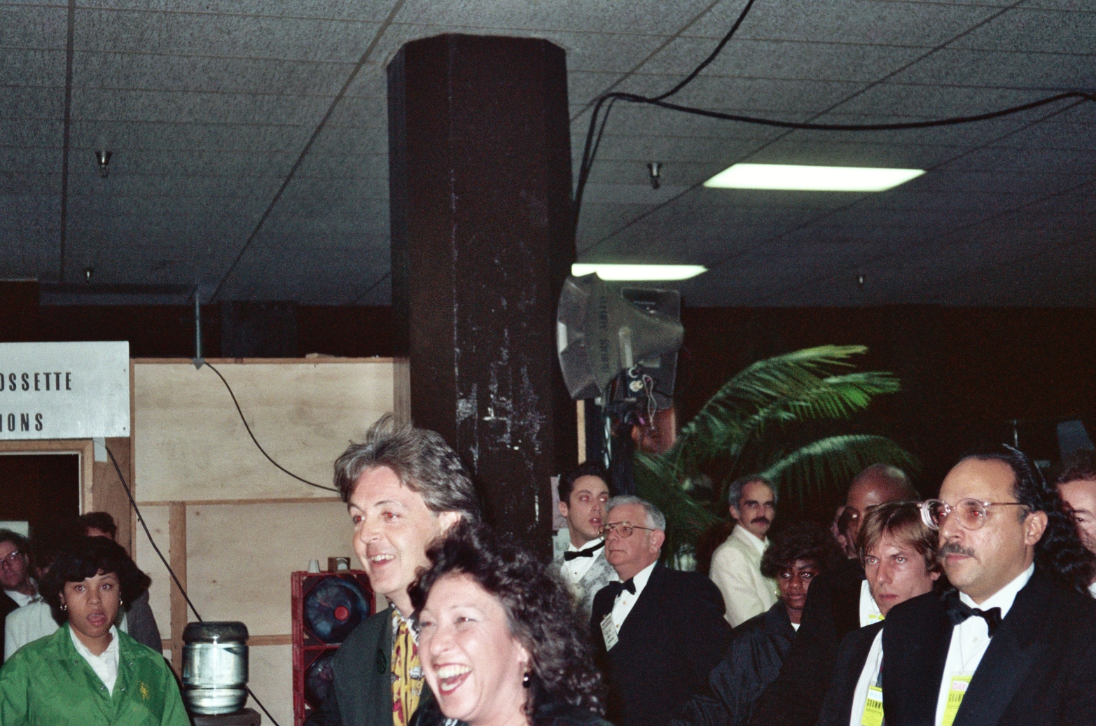 1990 Grammy Awards NOTE: Permission granted to copy, publish, broadcast or post any of my photos, but please credit "photo by Alan Light" if you can. Thanks. Scanned from the original 35MM film negative.